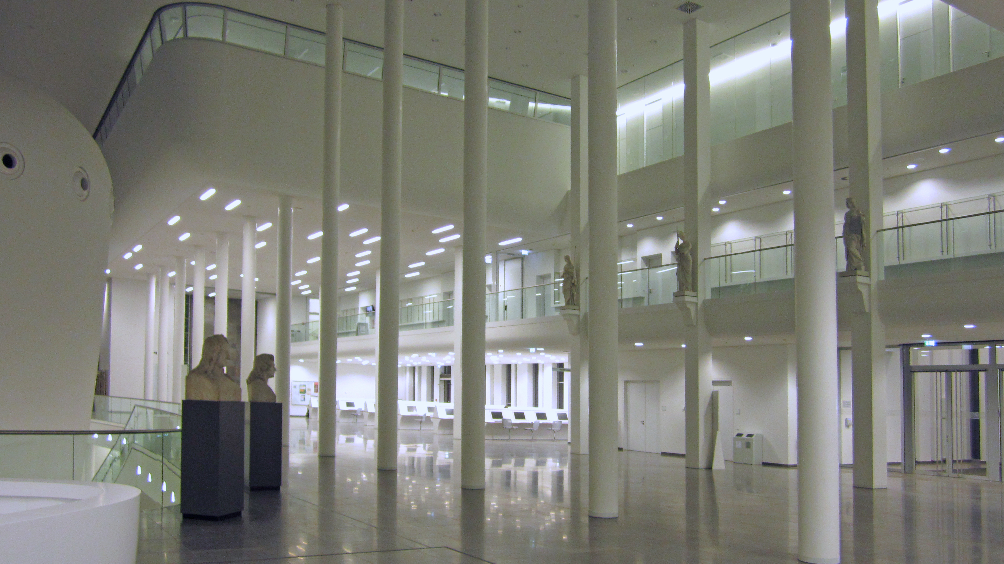 Inside the Neues Augusteum (New Augusteum), the main building of Leipzig University.